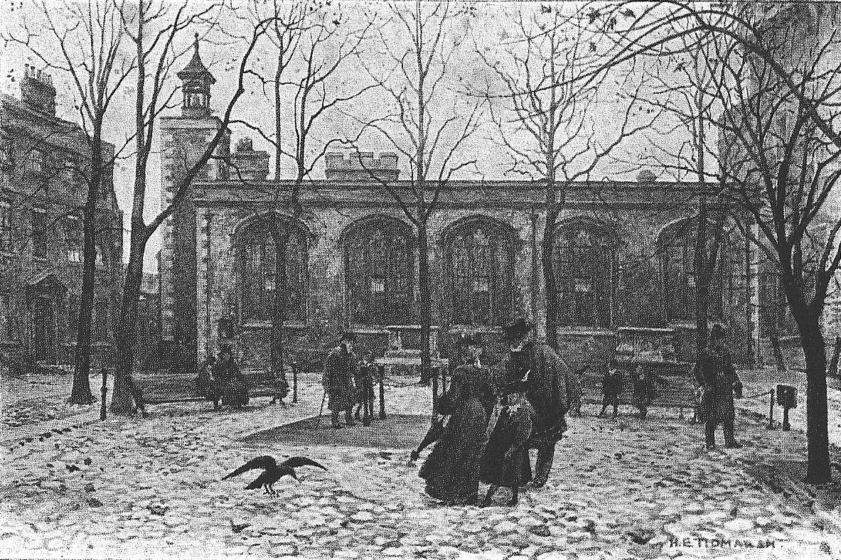 Place of Execution in Front of St. Peter’s Chapel